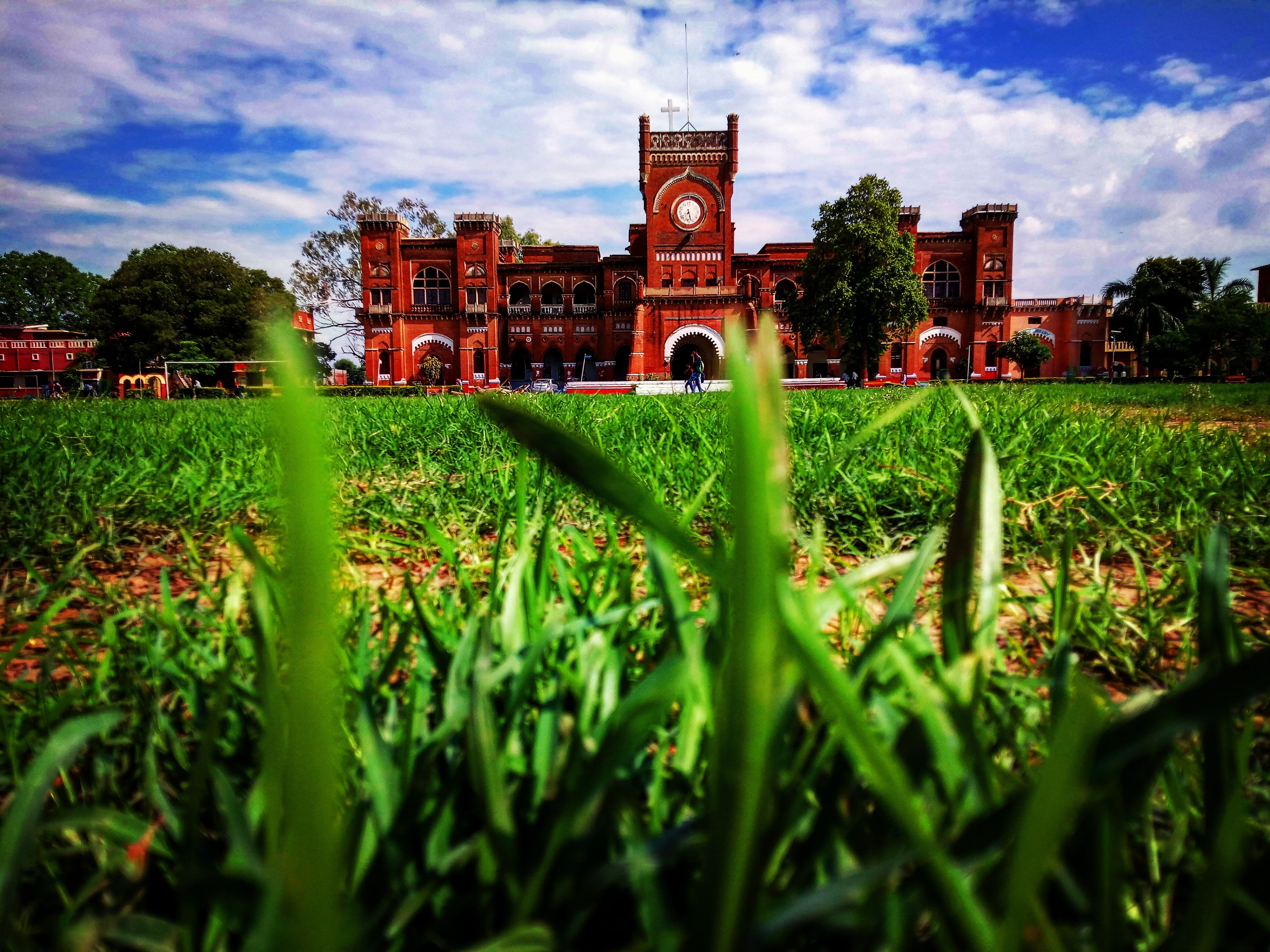 Ewing Christian College pic by Akhil Iype Mathew